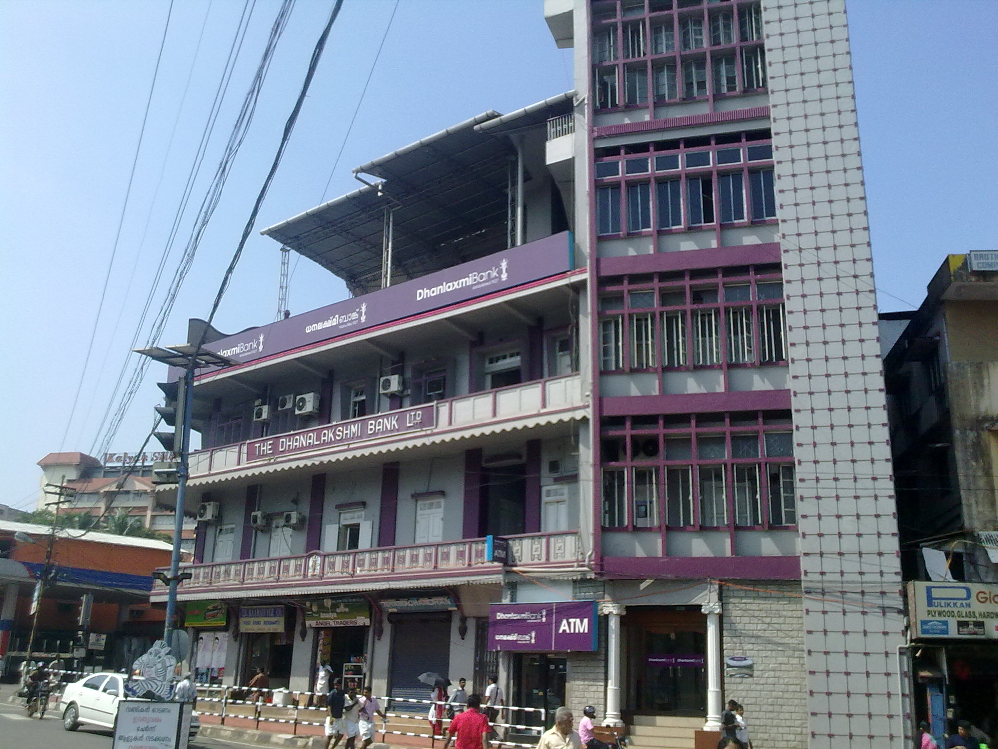 Dhanalakshmi Bank headquarters in Thrissur city